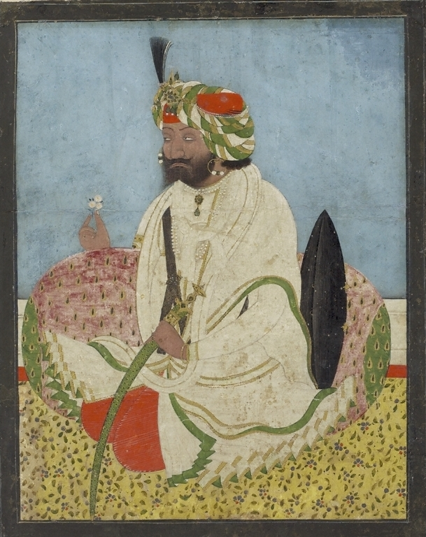 Portrait of Gulab Singh Dogra.